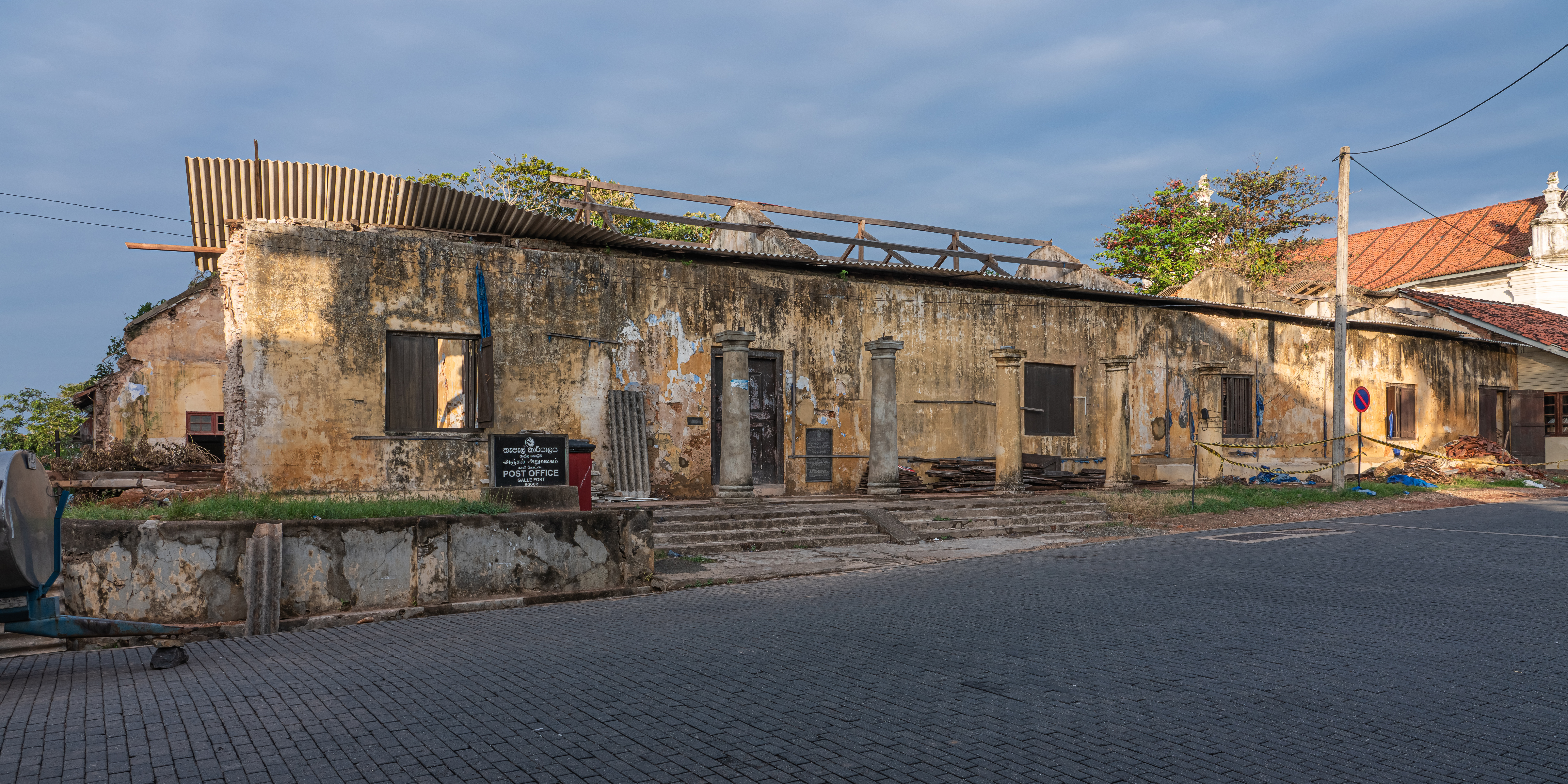 Ruins of the Post office in the Dutch Fort of Galle, Sri Lanka